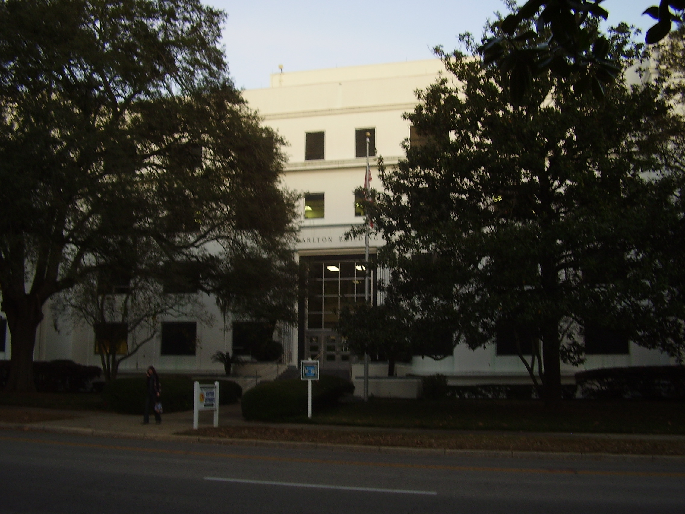 Carleton Building, headquarters of the Florida Department of Corrections